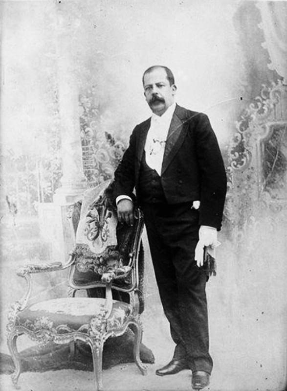 Manuel Estrada Cabrera, president of Guatemala from 8 February 1898 to 15 April 1920.